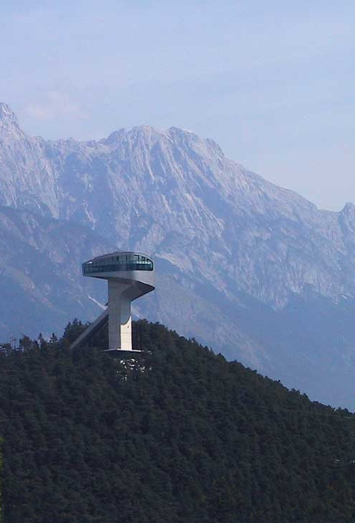 View of top of Bergisel ski jumping hill in Innsbruck (Austria) from the South